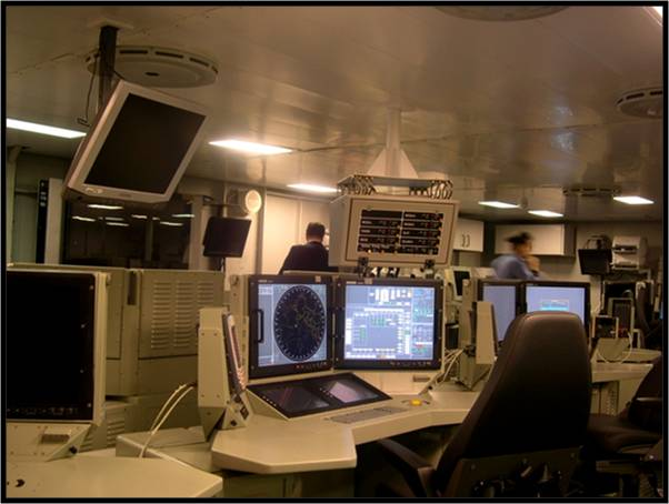 The CIC of ITS Duilio